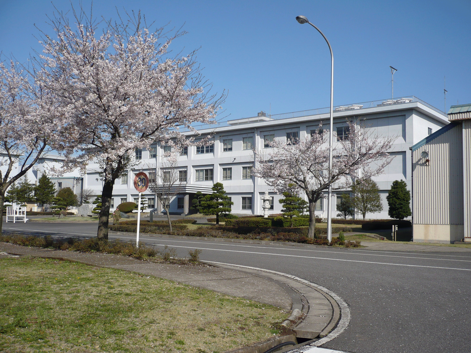 Aviation school, Kasumigaura-brunch, JGSDF